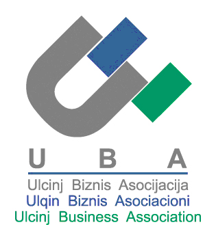 Ulcinj Buissness Association